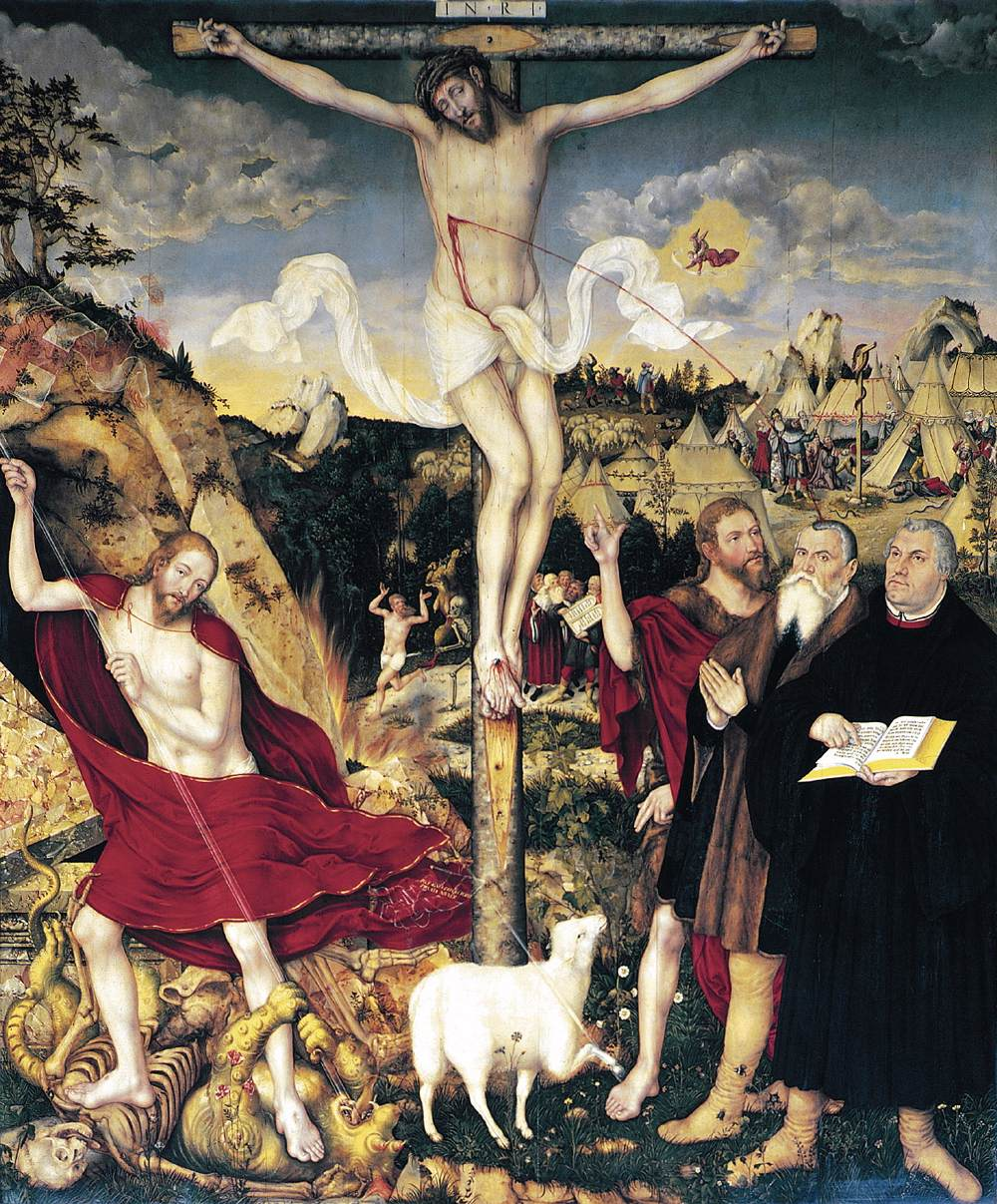 Altarpiece of the crucifixion from the St Peter and St Paul Church, Weimar begun by Lucas Cranach, the Elder and finished by his son Lucas Cranach, the Younger